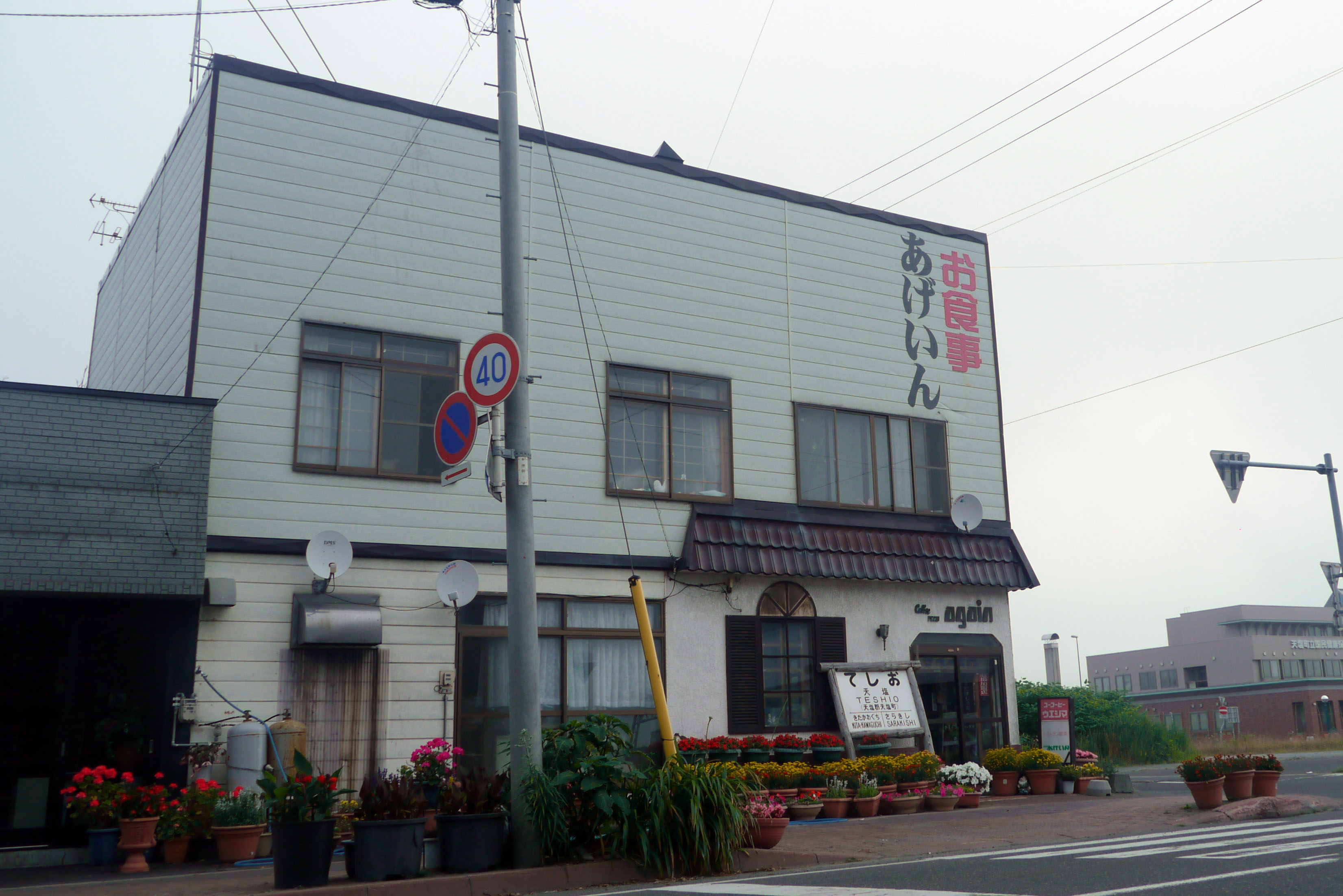 The remains of Teshio Station of the Haboro Line in Hokkaido, Japan. Photo taken on July 29, 2011